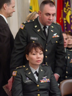 Major Tammy Duckworth and her husband, Captain Bryan Bowlsby at a Senate Committee on Veterans' Affairs hearing.